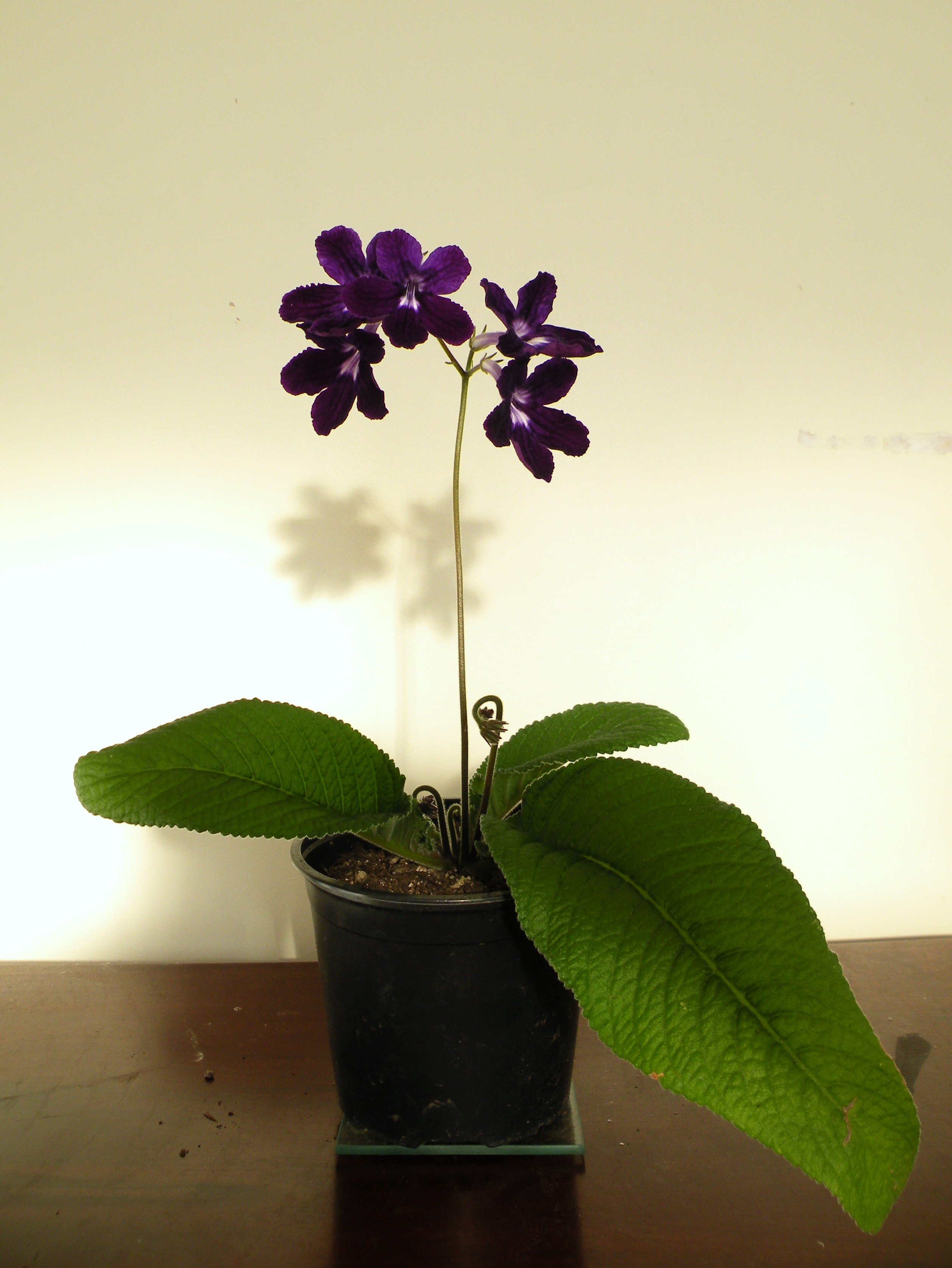 Young Streptocarpus 'Anderson's Crows' Wings' plant